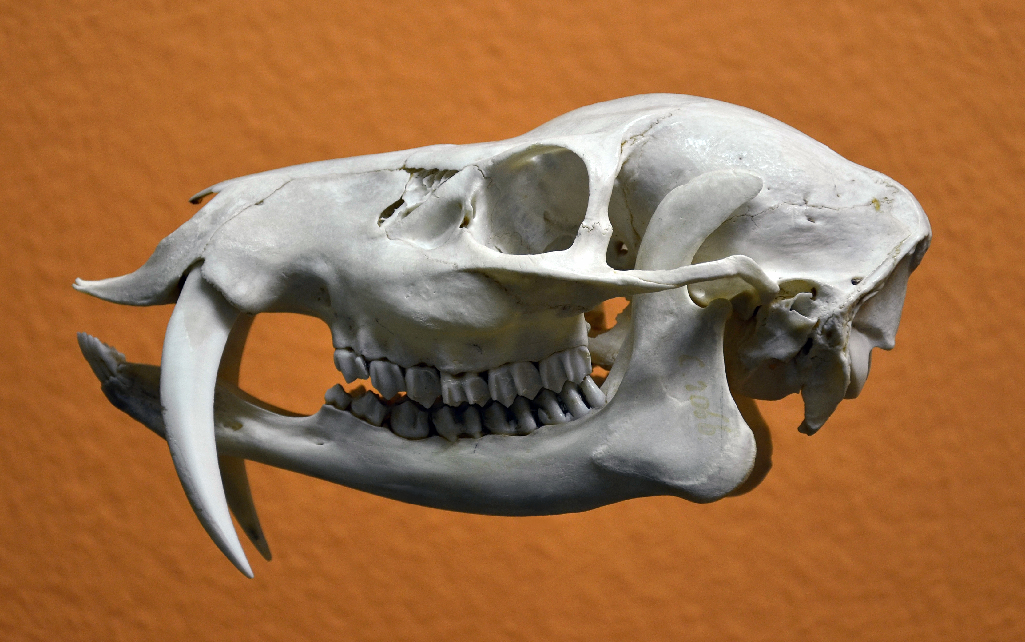 Skull of water deer (Hydropotes inermis). Naturhistorisches Museum in Basel.